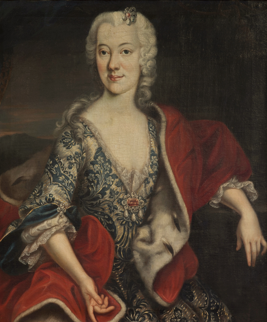 Fürstin Maria Charlotte zu Löwenstein Wertheim